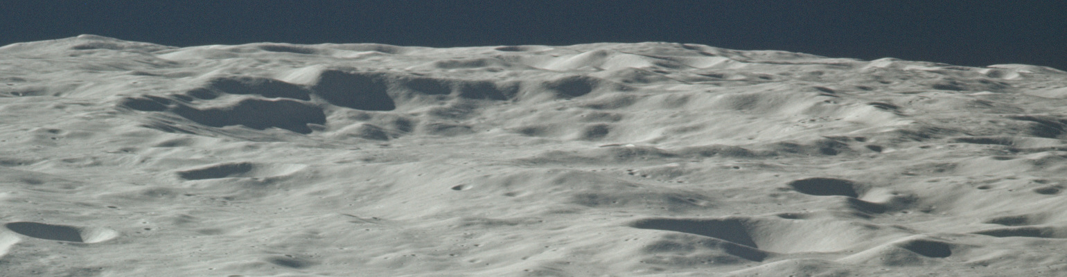 Oblique view of Konstantinov, facing northeast.